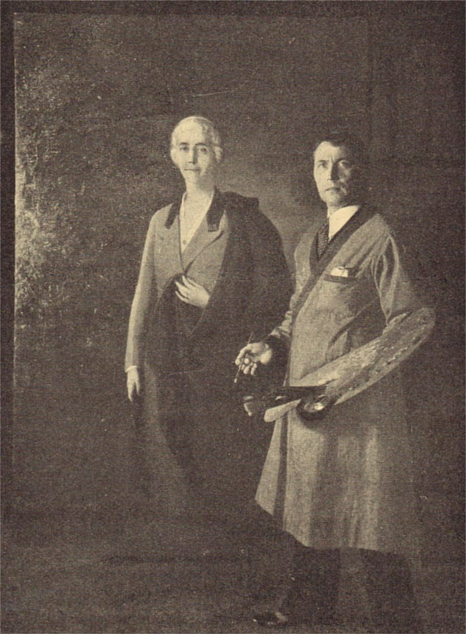 Gleb Alexander Ilyin with his portrait of Mrs. Hoover in her Girl Scout uniform. Ilyin stopped at The Mayflower while completing the portrait.